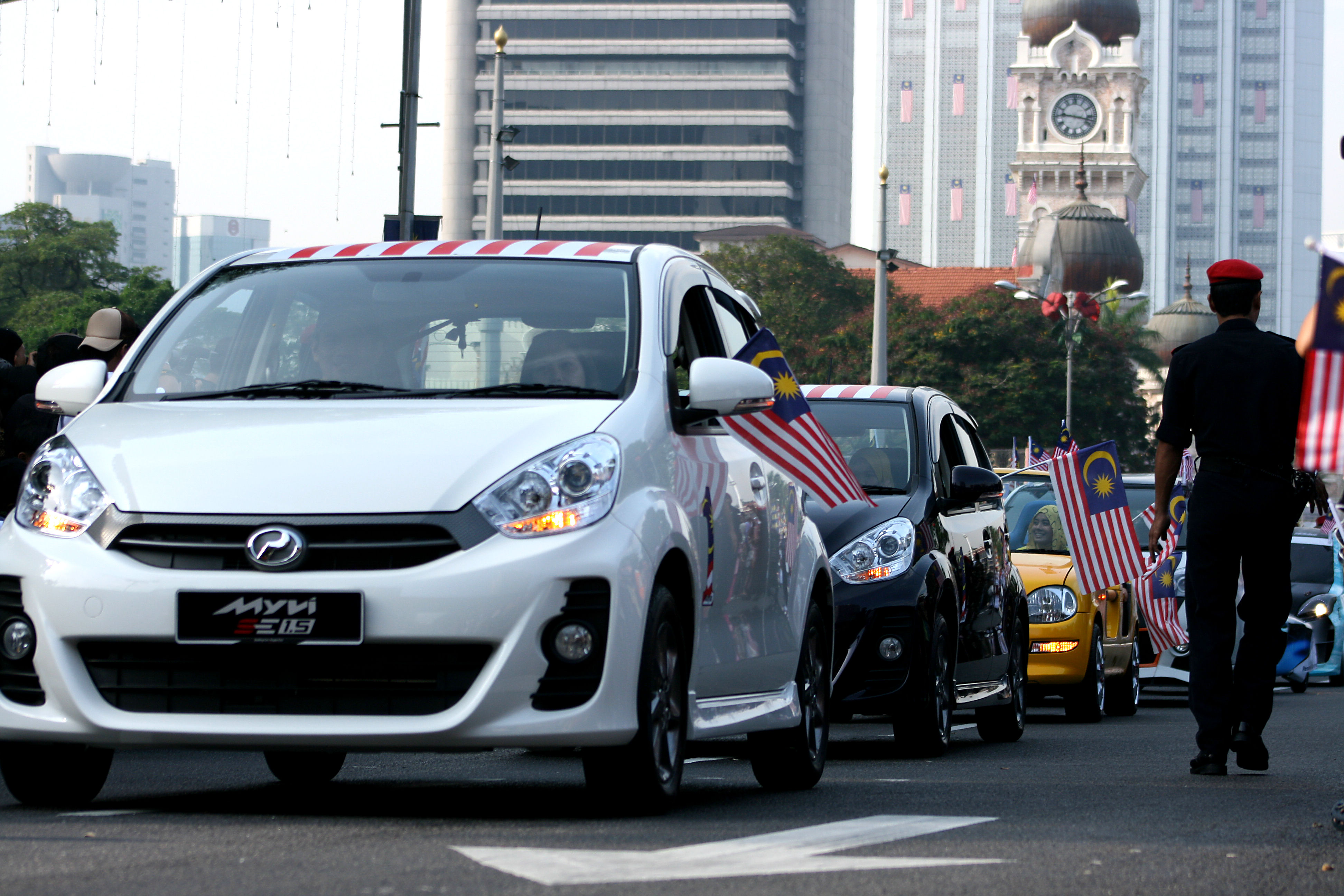 Perodua convoy at the 2011 Hari Malaysia celebrations at Dataran Merdeka, Kuala Lumpur.